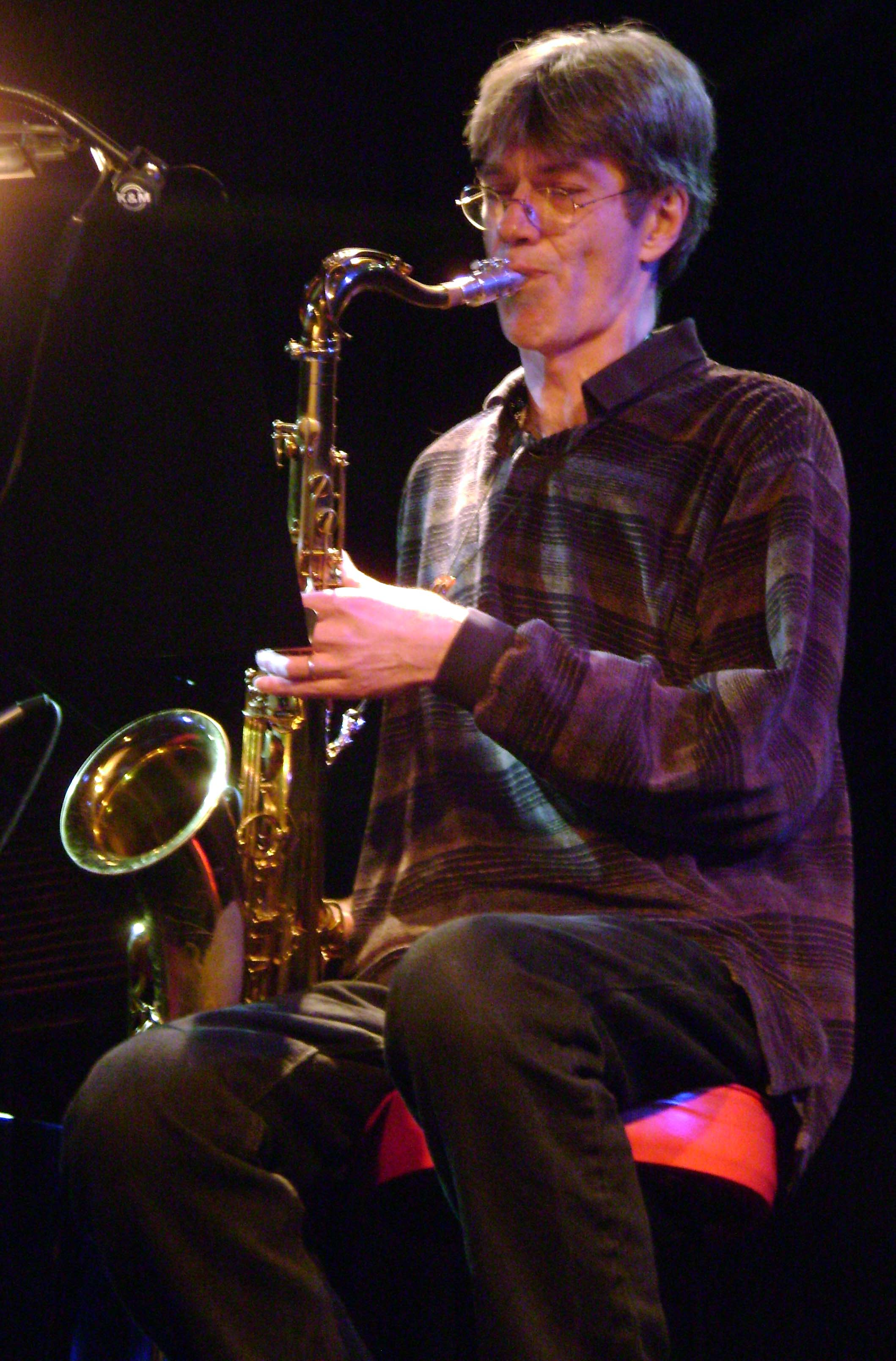 Bob Malach at a concert with Jasper van't Hof, Treibhaus Innsbruck 2008